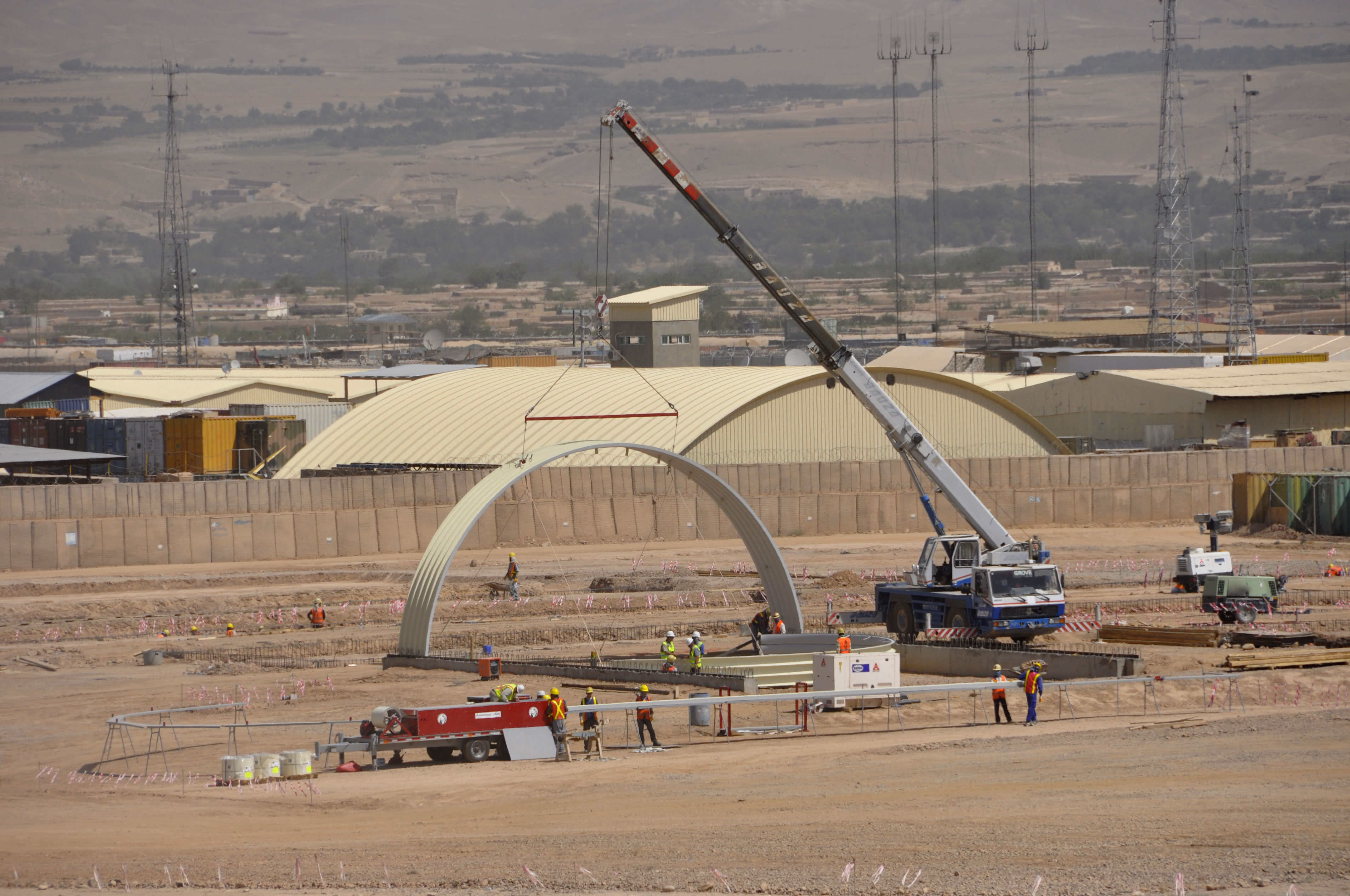 In this photo workers place arched steel that will form the roof and walls for an arch-span structure in Tarin Kowt, Afghanistan. (U.S. Army Corps of Engineers Photo by Karla Marshall)